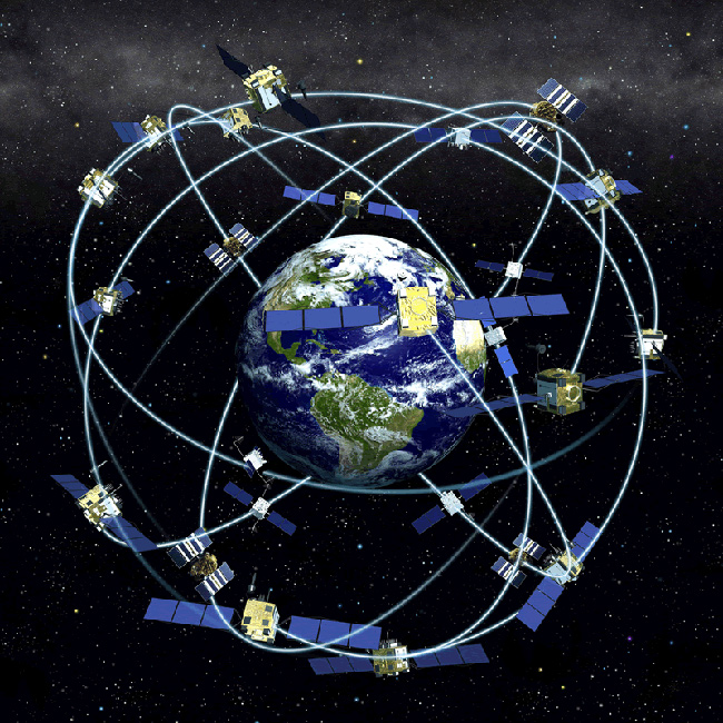 A 3D Representation of the GPS Satellite Constellation